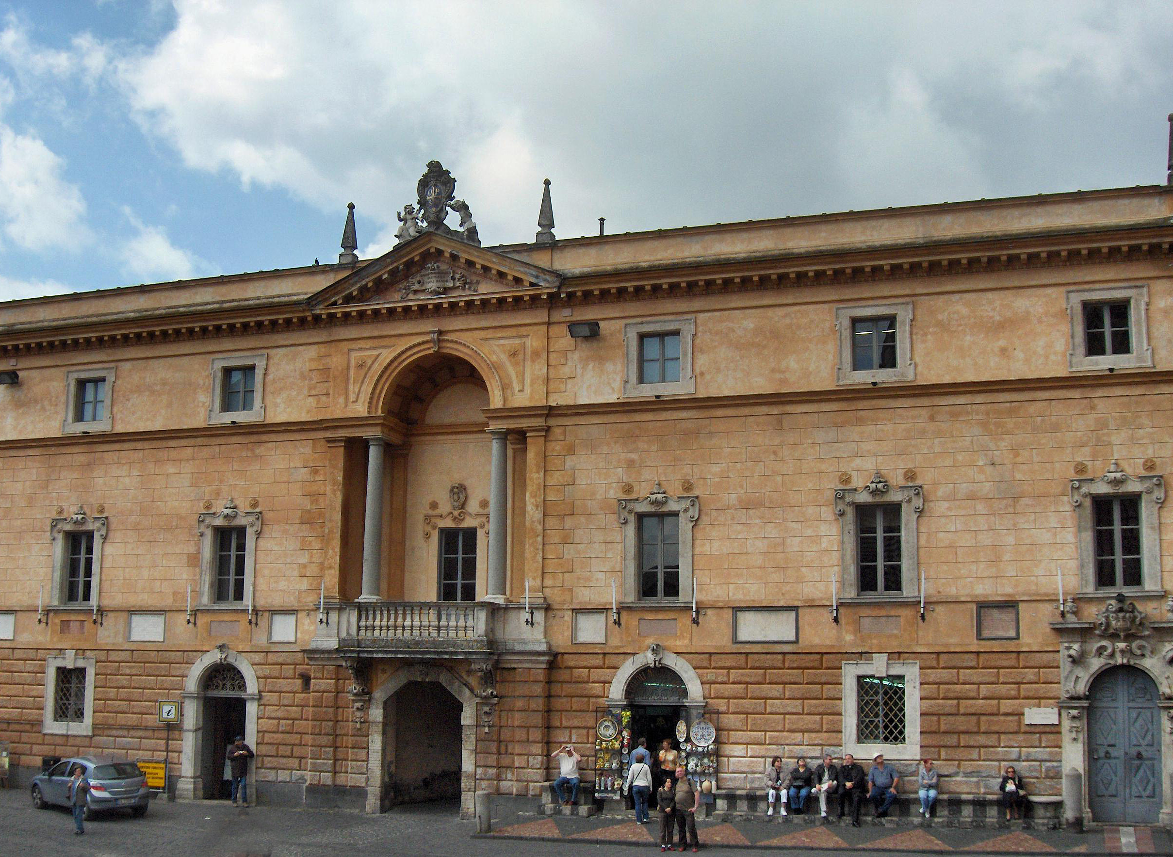 Palazzo dell'Opera del Duomo; Orvieto; Italy